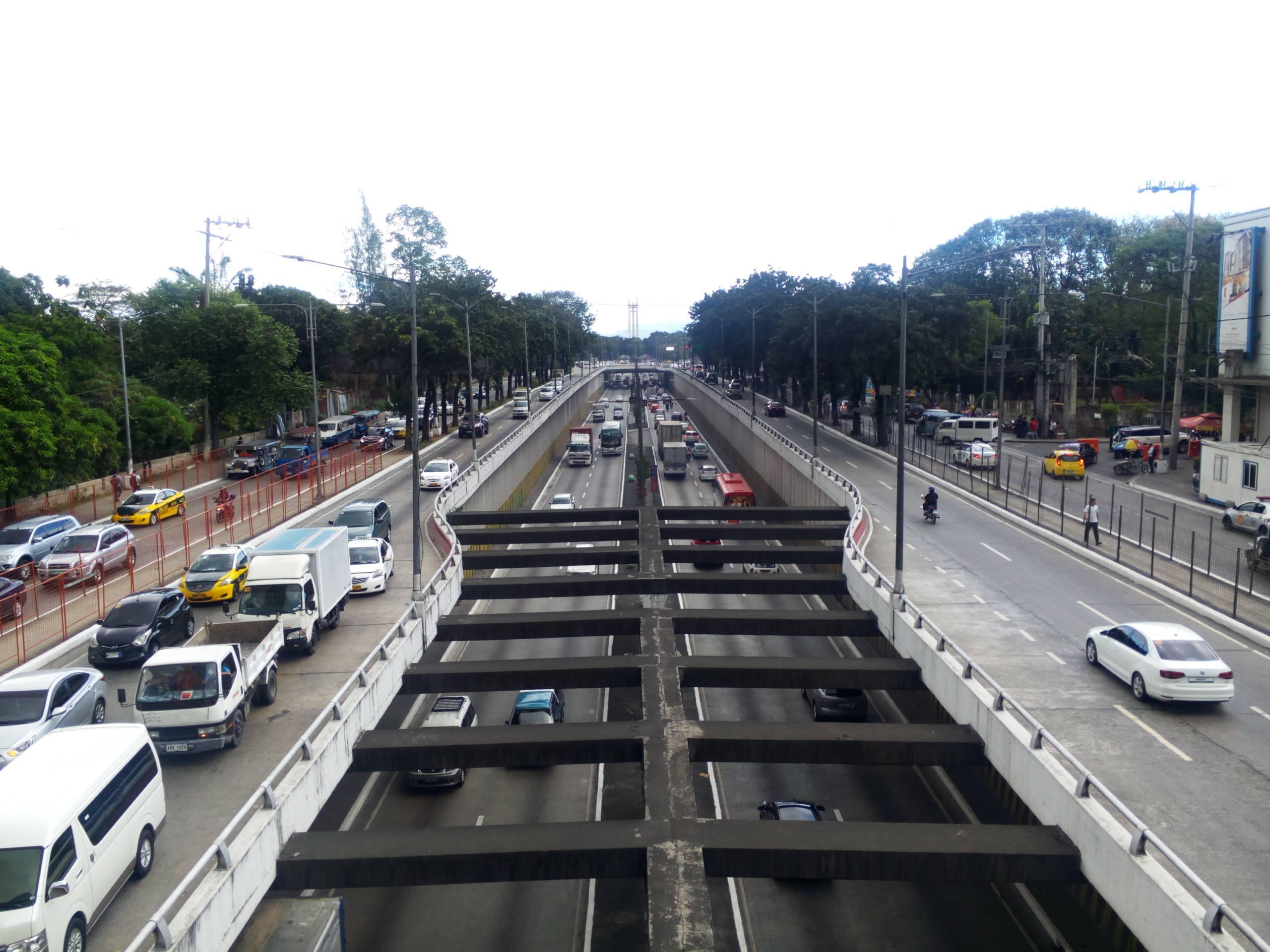 EDSA-Quezon Avenue underpass in Quezon City. Seen in the center is the monument tower of Quezon Memorial Circle